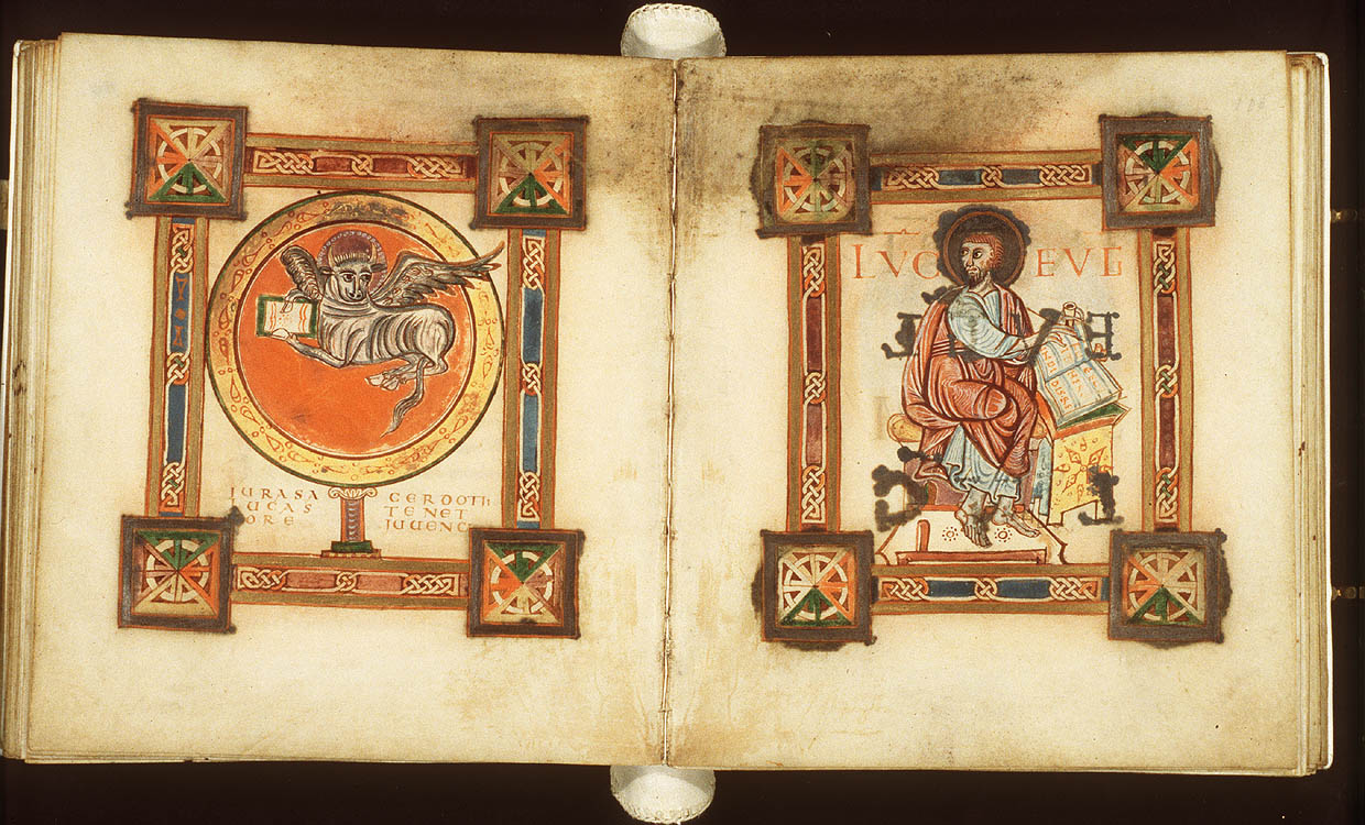 Fol. 104v and 105r of the Egmond Gospels. The evangelist Luke and his symbol.